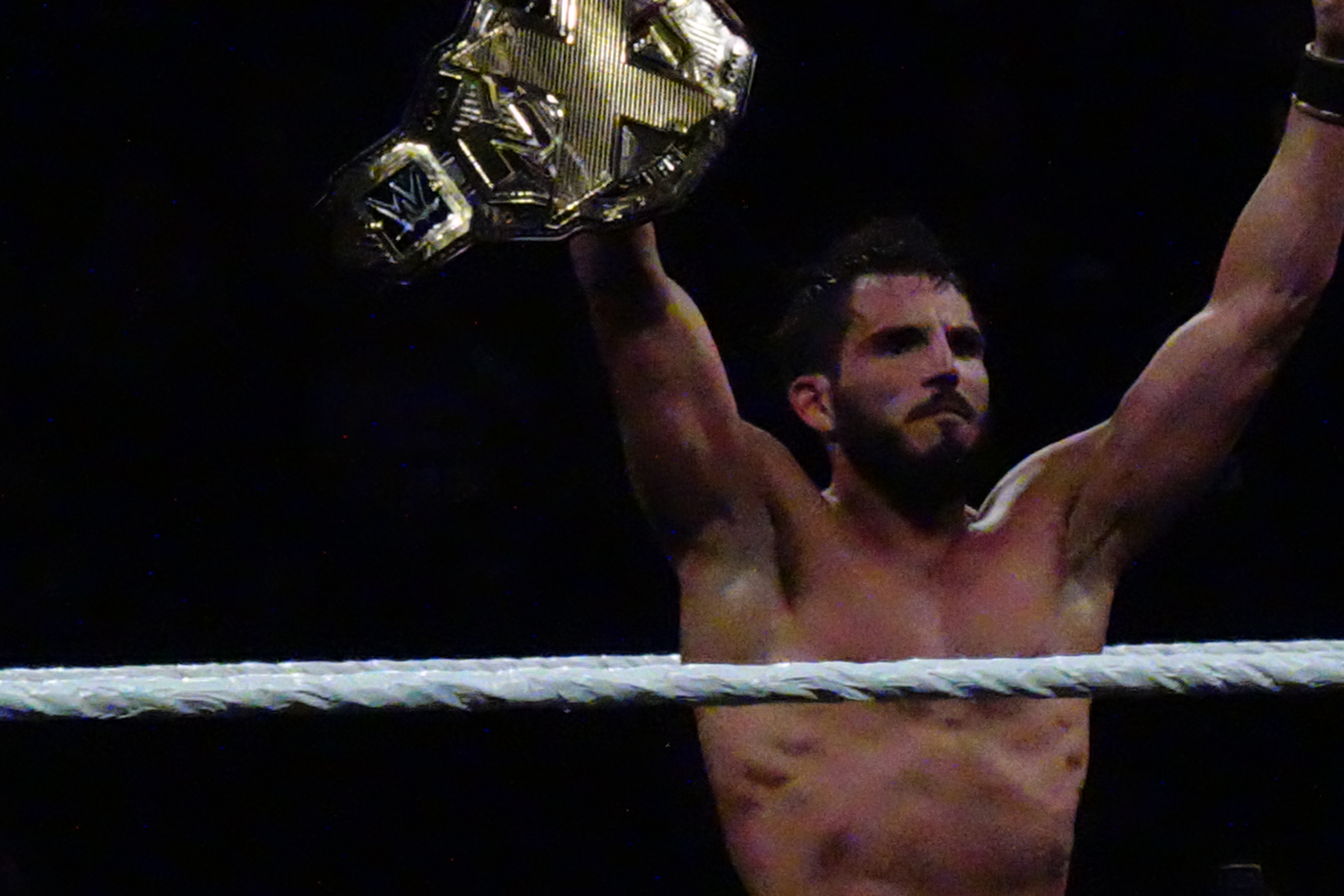 Gargano NXT Champion